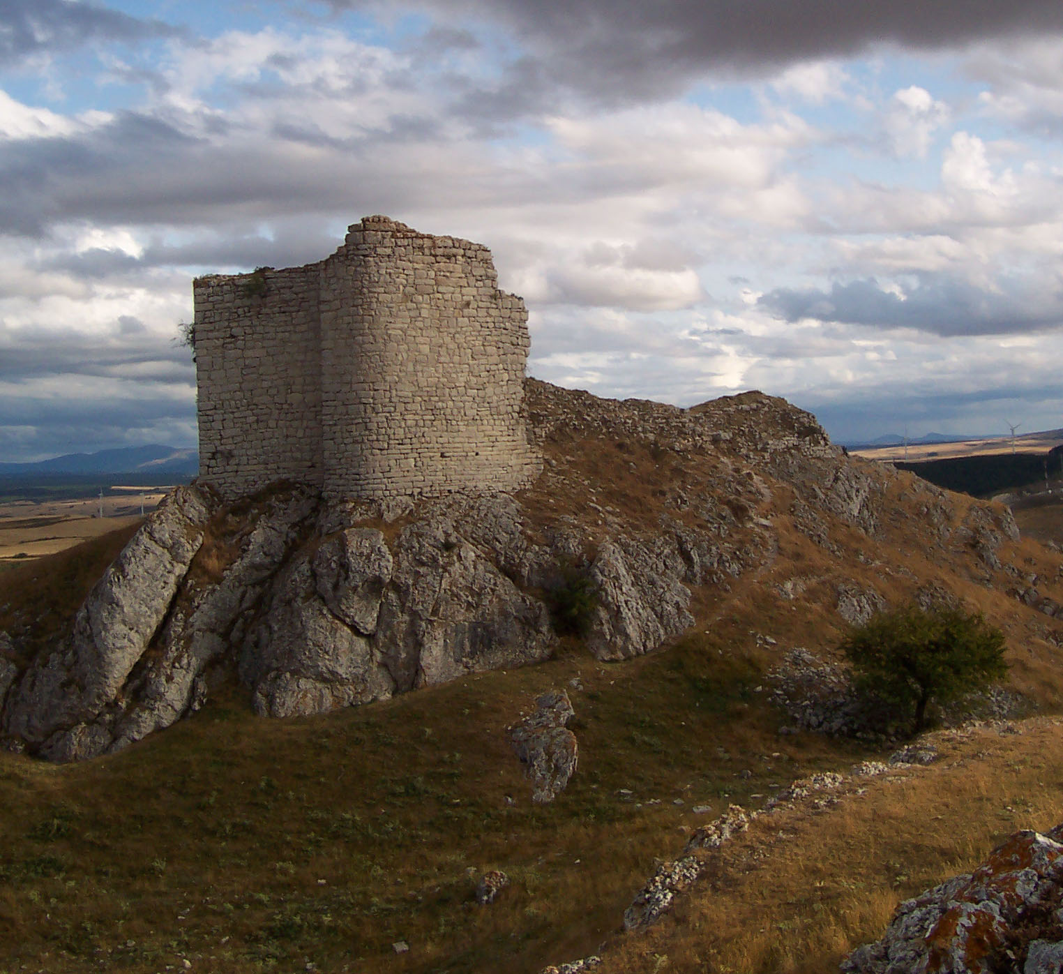 Ruins of the Monasterio de Rodilla castle, in Burgos (Spain).